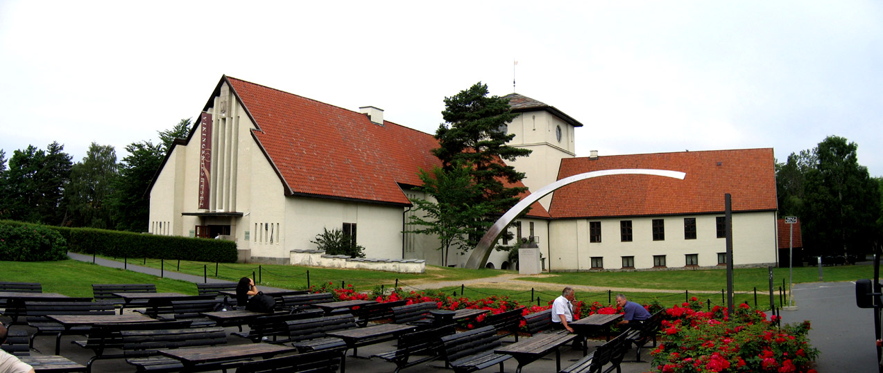 The Vikingship Museum at Bygdøy. Oslo, Norway. Built 1930. Architect: Arnstein Arneberg. Canon Powershot A95, Photoshop 7